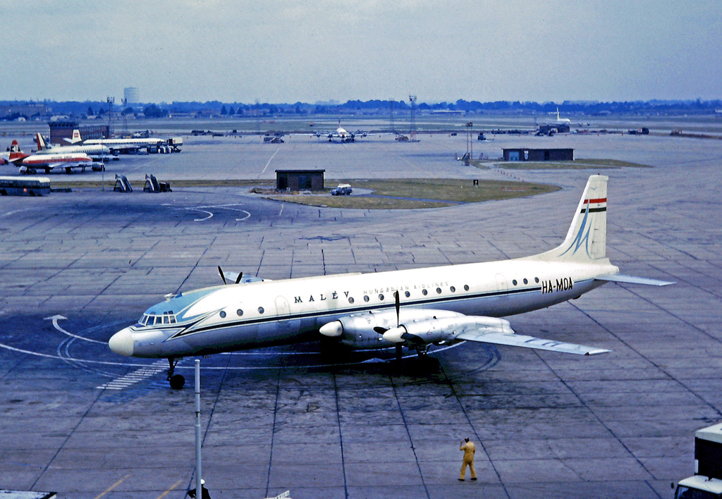 Ilyushin Il-18 HA-MOA of Malev Hungarian Airlines at London Heathrow in 1965